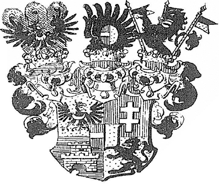 Coat of arms of canonry Baron Peteani.